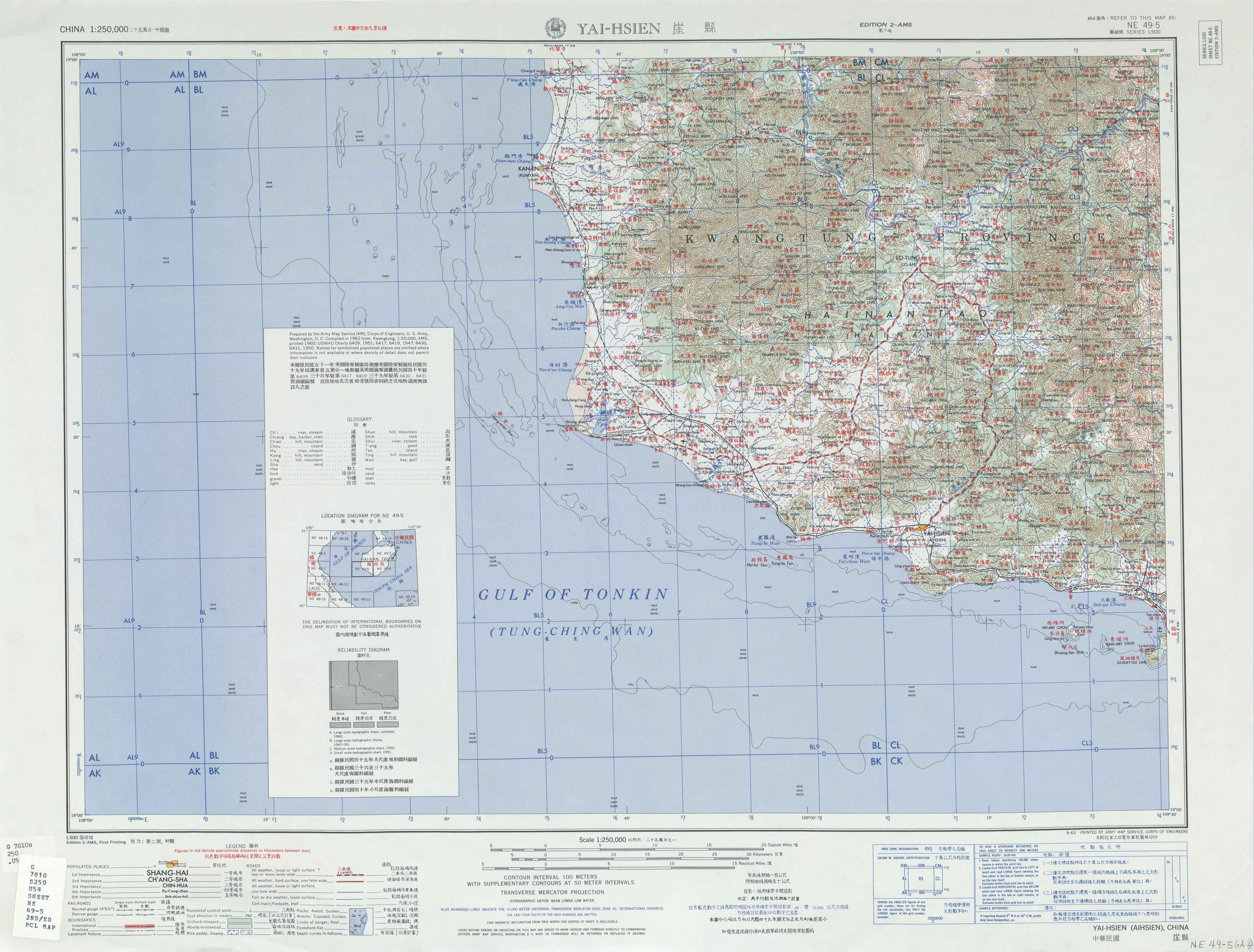 Map of Sanya area, Hainan